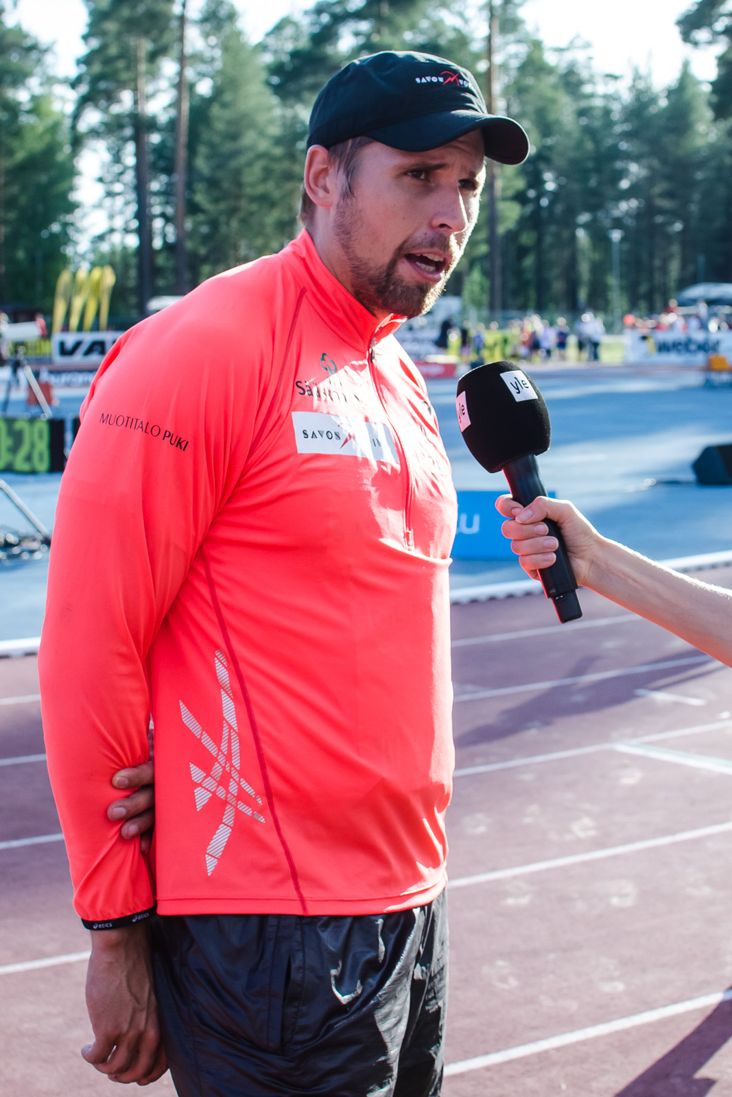 Antti Ruuskanen after Savo Games at Lapinlahti (20 July 2014)